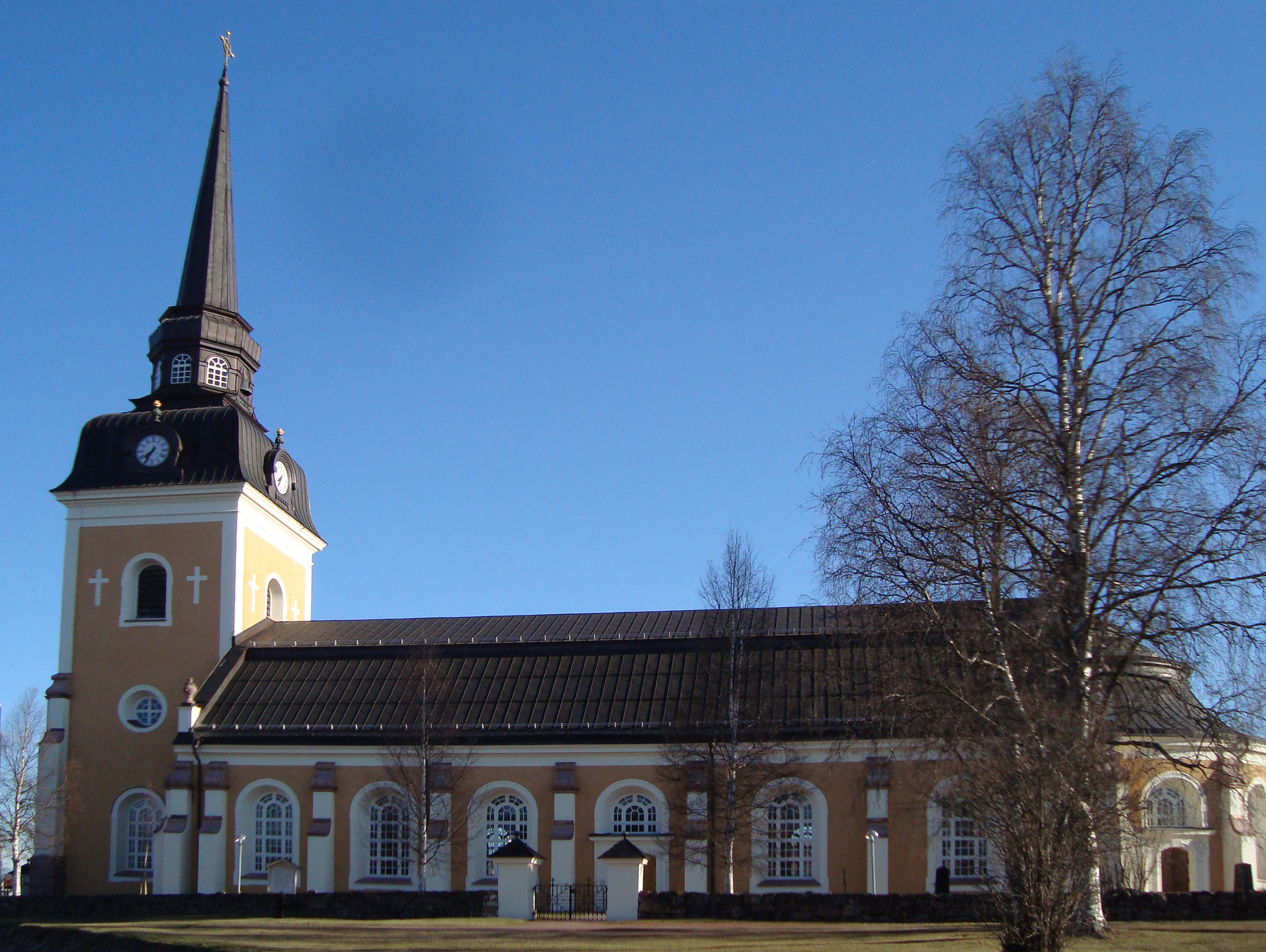 Church of Älvdalen, Älvdalen, Sweden